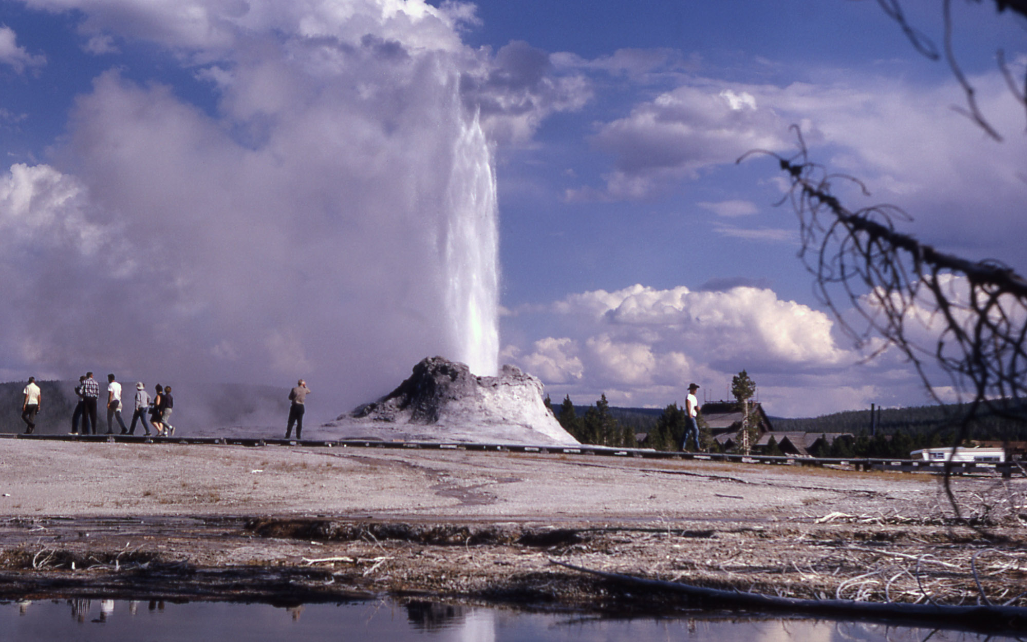 Spectators watching Castle Geyser erupt, Yellowstone National Park. NPS photo by George Marler